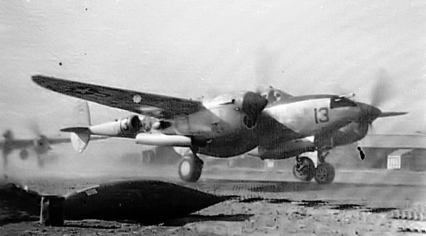 Lockheed P-38 of the 14th Fighter Group